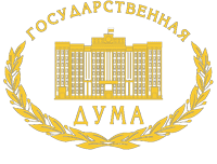 Emblem of the State Duma of Russia